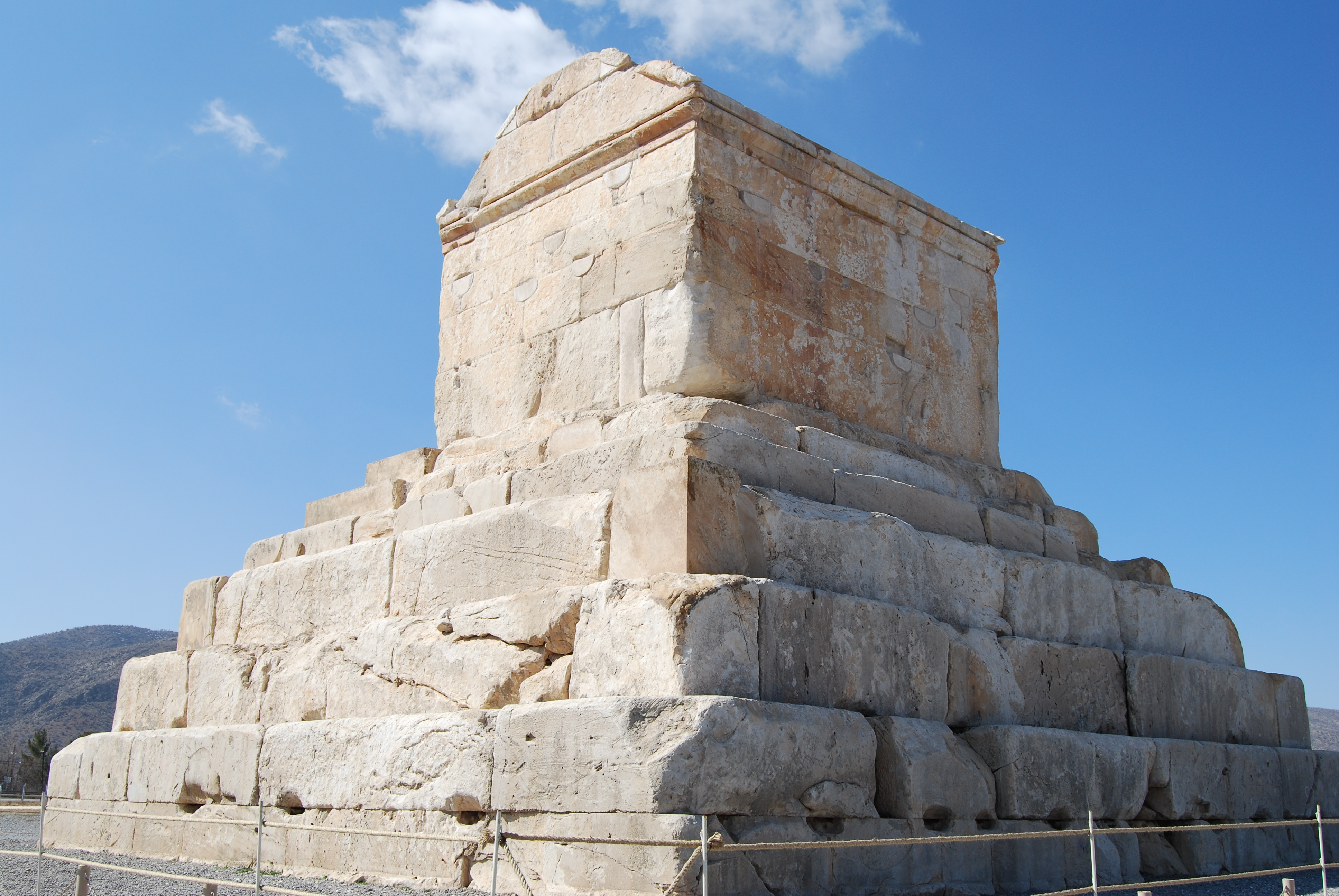 Tomb of Cyrus the Great